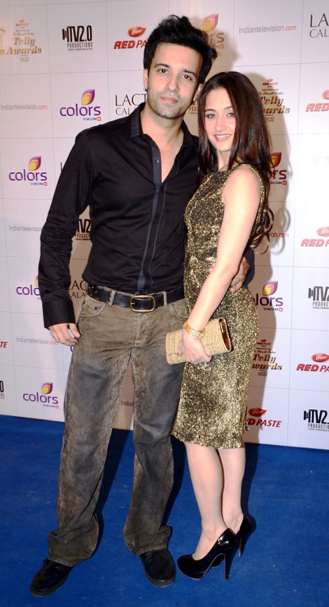 colors indian telly awards